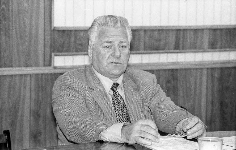 Yaroslavl Governor Anatoly Lisitsyn.